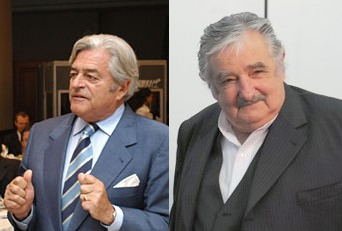 Former president of Uruguay L. Alberto Lacalle in US embassy. Right